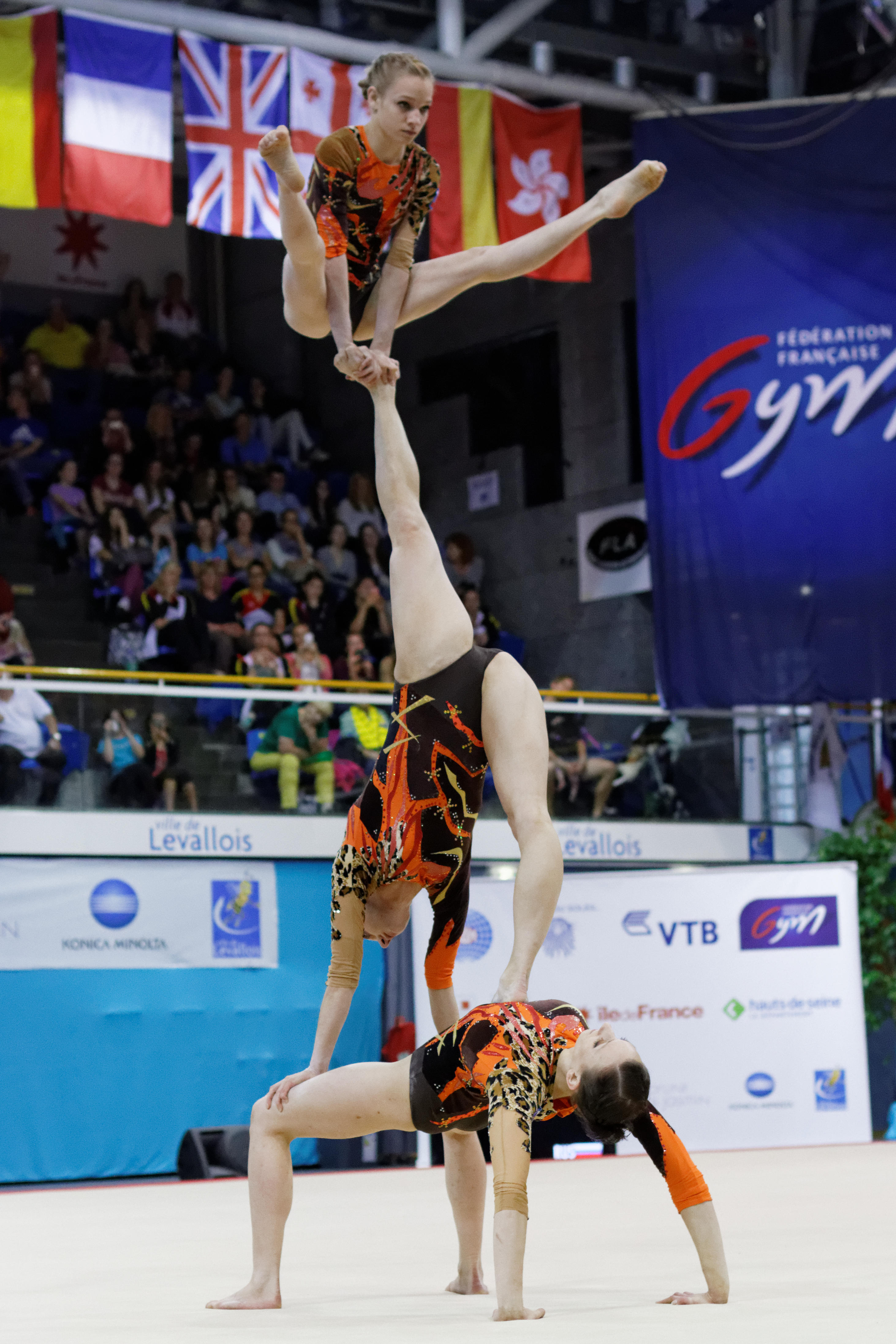 2014 Acrobatic Gymnastics World Championships, 10th-12 July, Levallois-Perret, France. Qualifications: women's group. Russia.